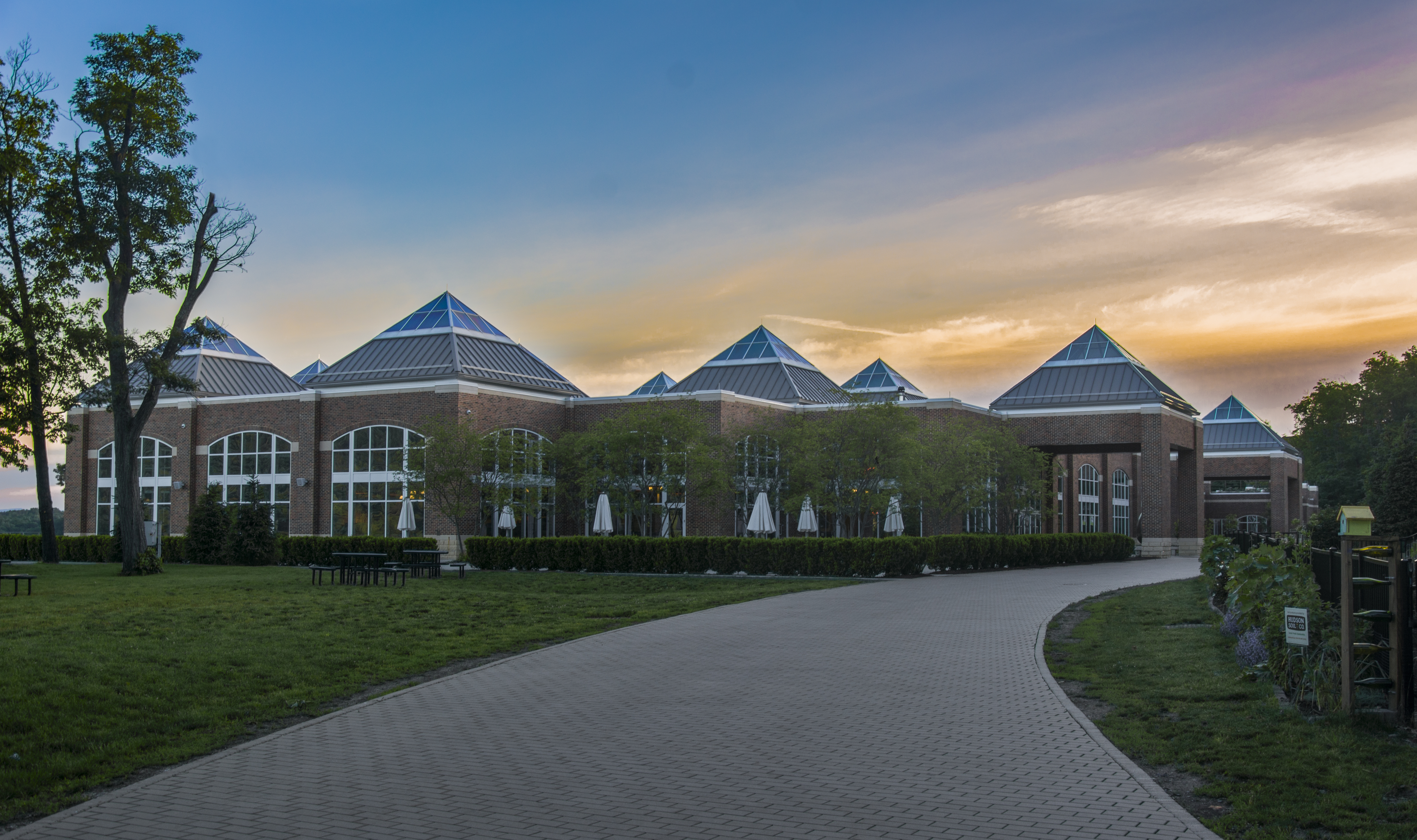 Part of the Culinary Institute of America's Hyde Park campus.